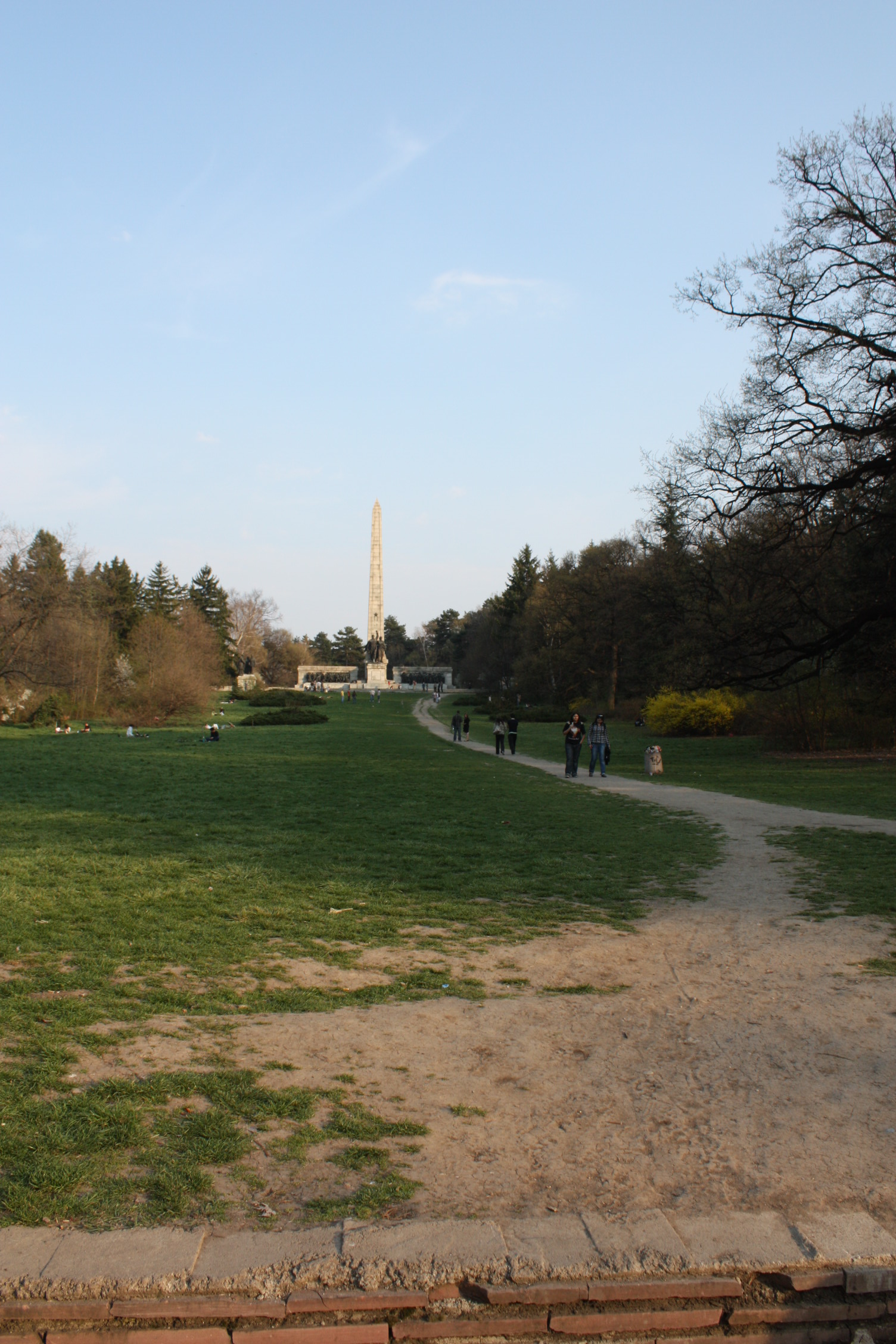 Statues and monuments in Sofia, Bulgaria